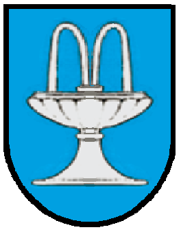 Coat of arms of Oberlaa, Vienna